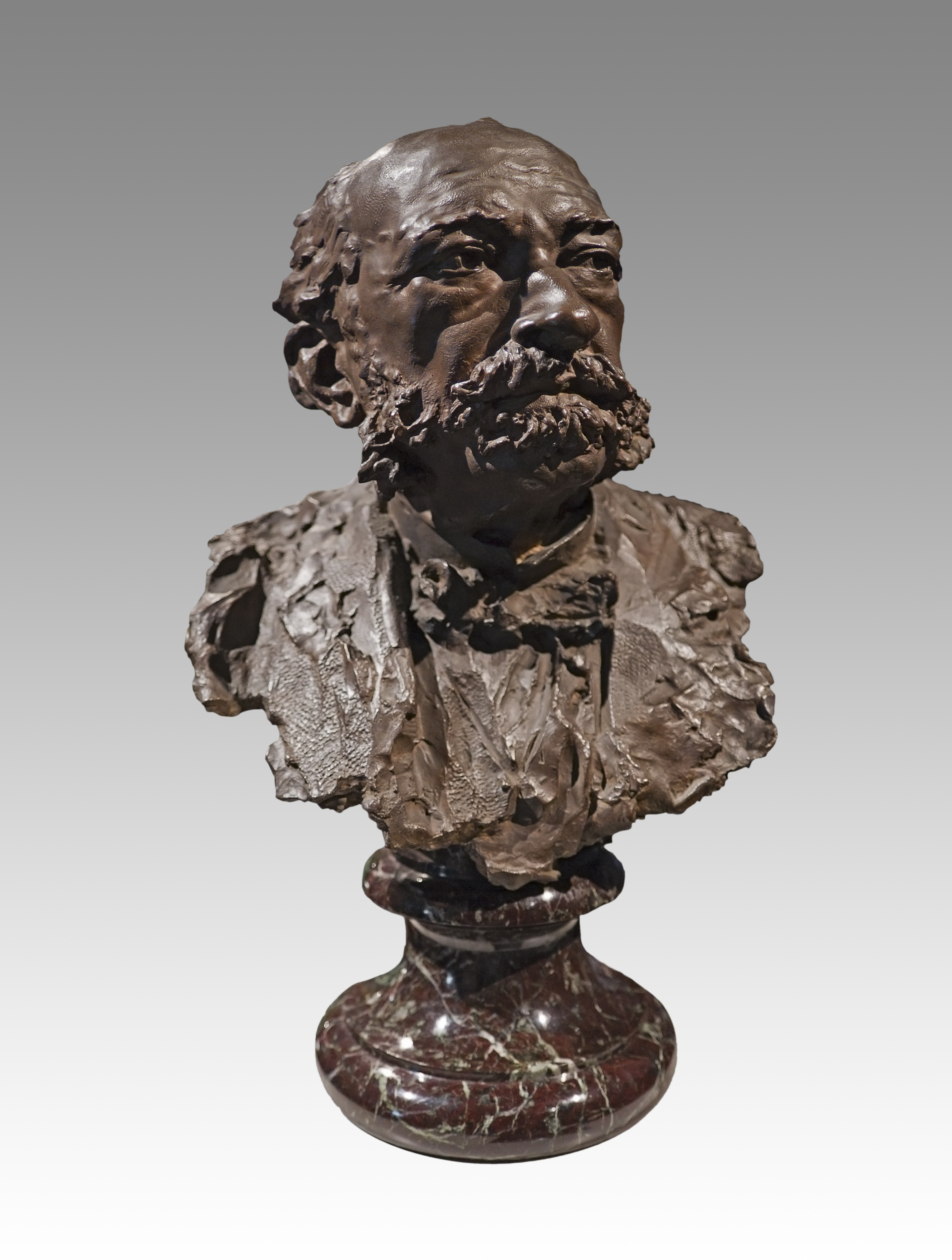 Emile Cartailhac – French prehistorian (1845-1921) Patinated bronze bust by Victor Ségoffin 1914.